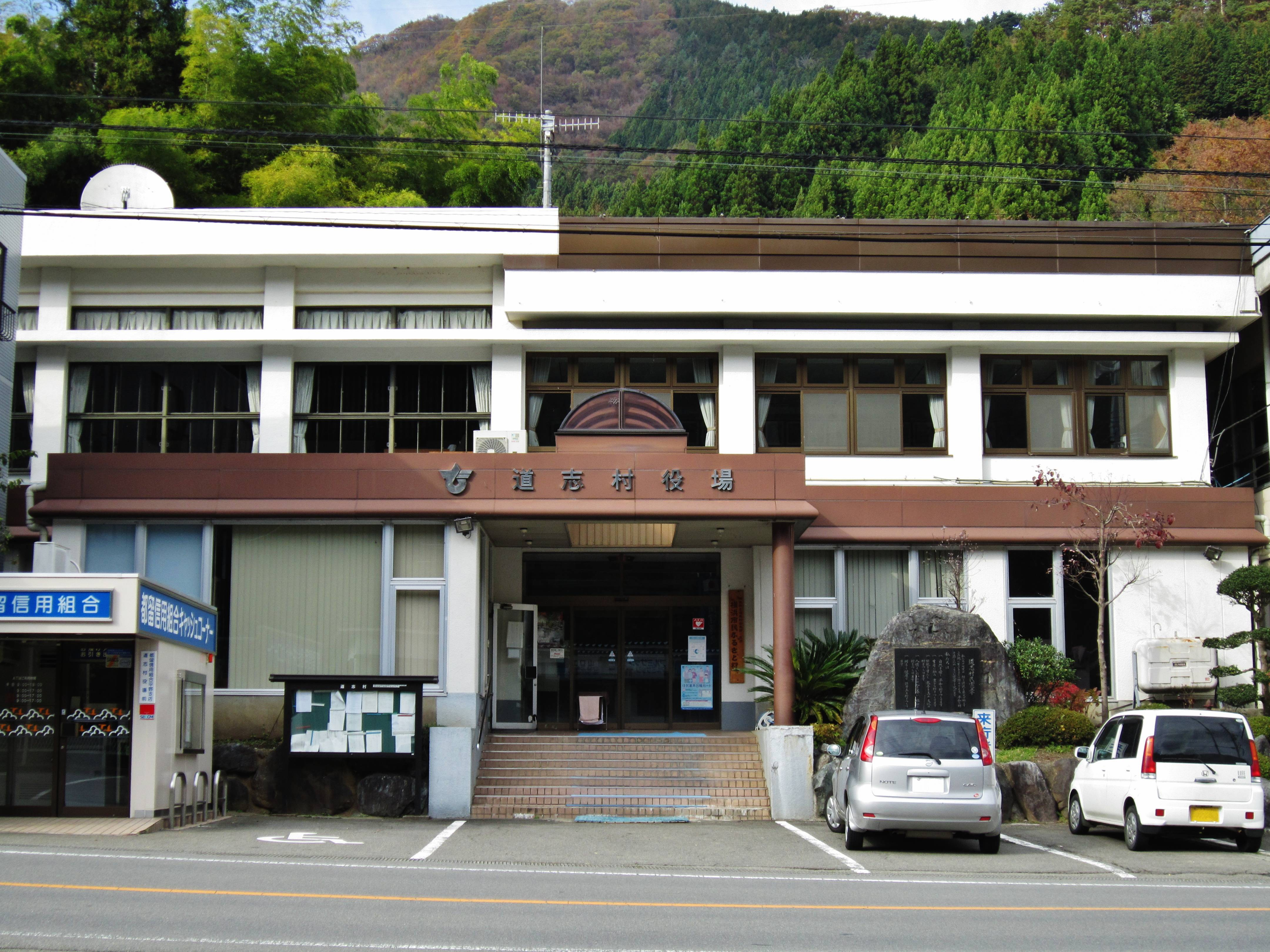 Doshi village office.